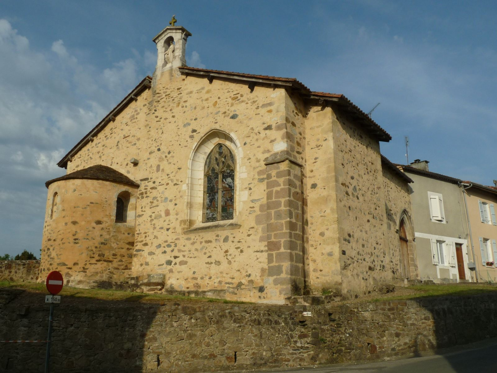 chapel at Ansac-sur-Vienne, Charente, SW France